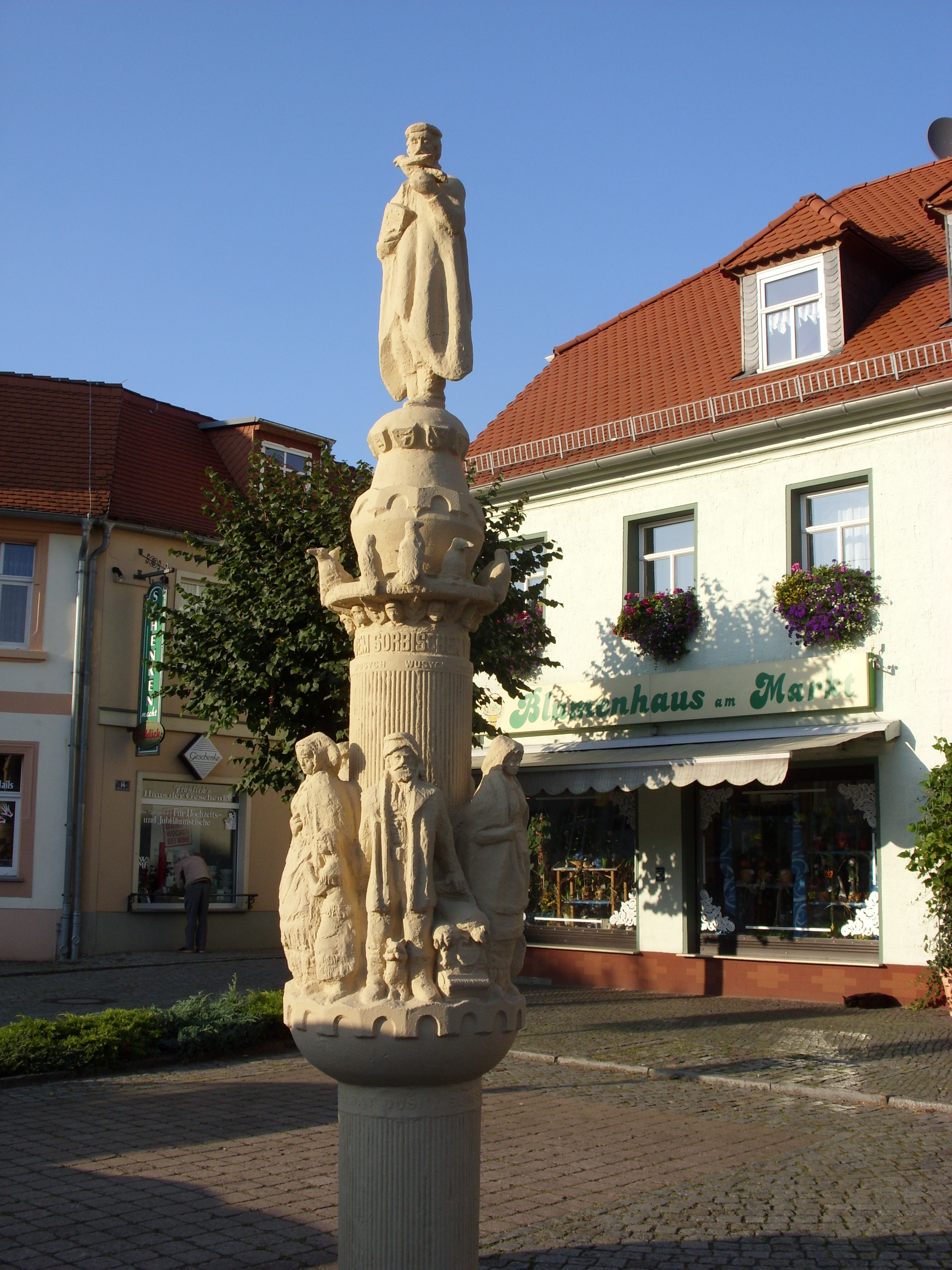 Monument for the legendary wizard and Sorbian folk hero "Krabat" in Wittichenau. Hornjoserbsce: Pomnik za serbskeho kuzłarja Krabata na Kulowskim torhošću